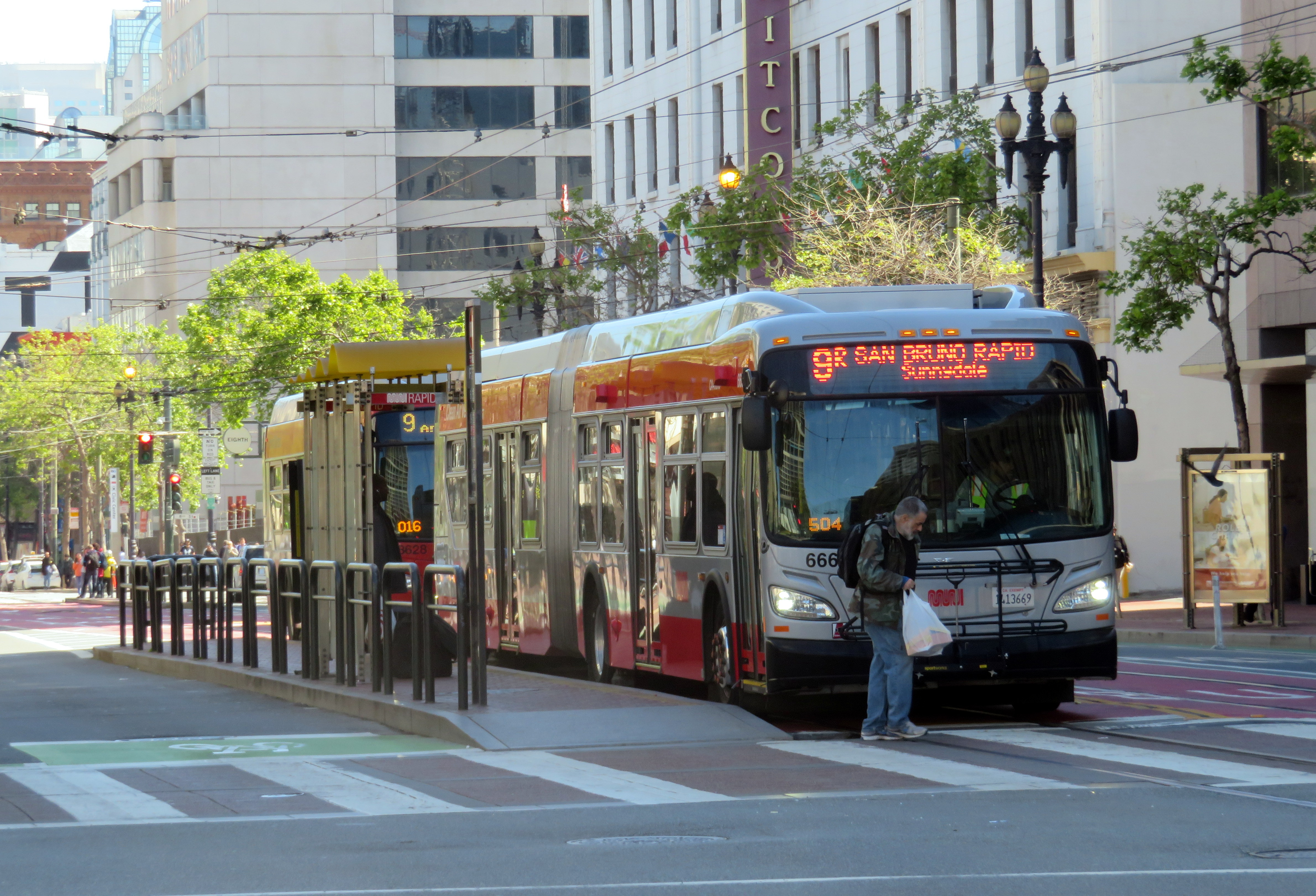 Muni route 9R bus outbound at Market and Larkin in April 2019